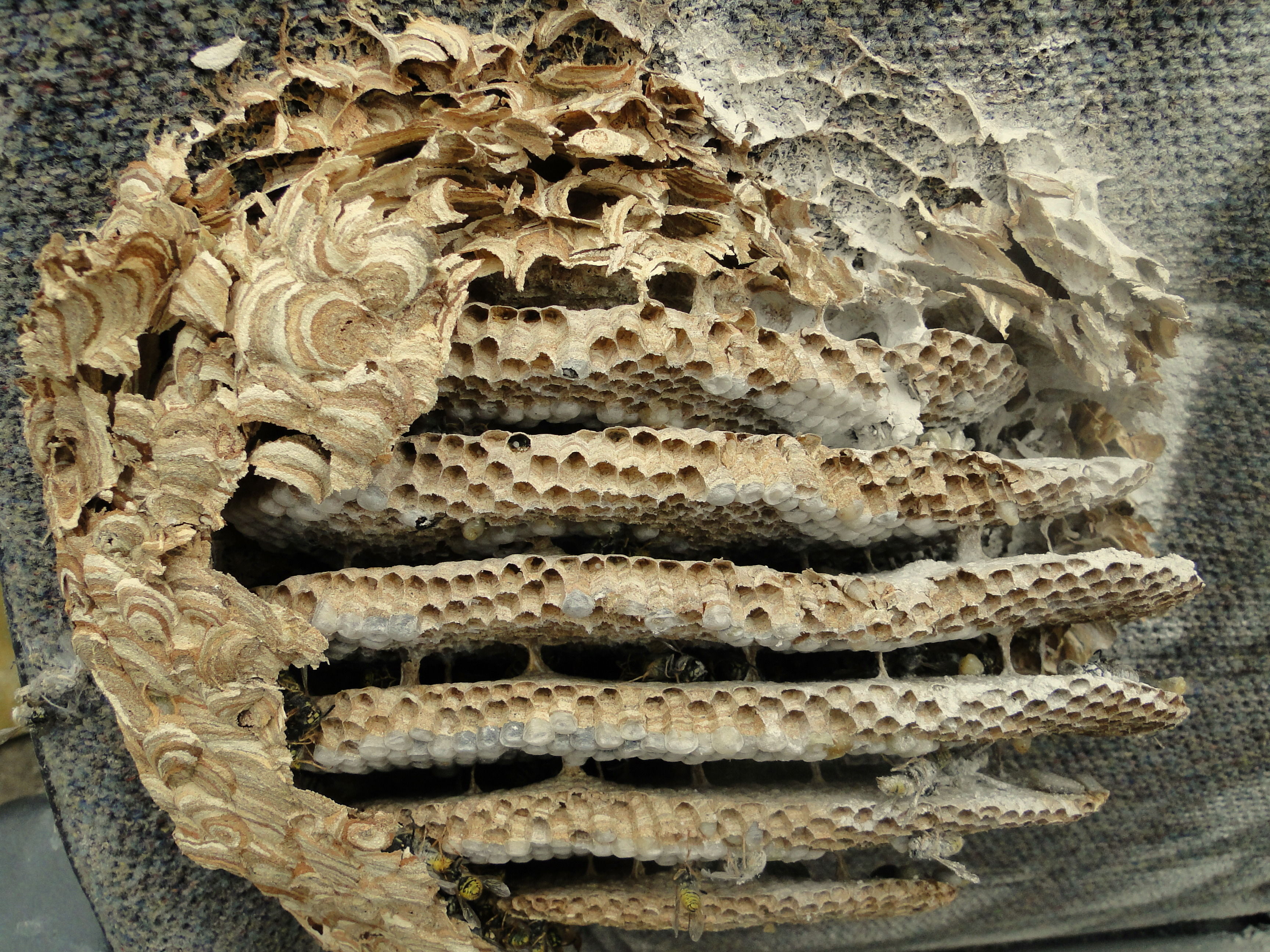 Structure of a Common wasp nest (Vespula vulgaris). The nest was built on the seat of a mobility scooter, kept under a cover, so it had to be removed. The adults have recently been poisoned with insecticide (note white powder) and the front of the nest has fallen away to reveal the inner structure